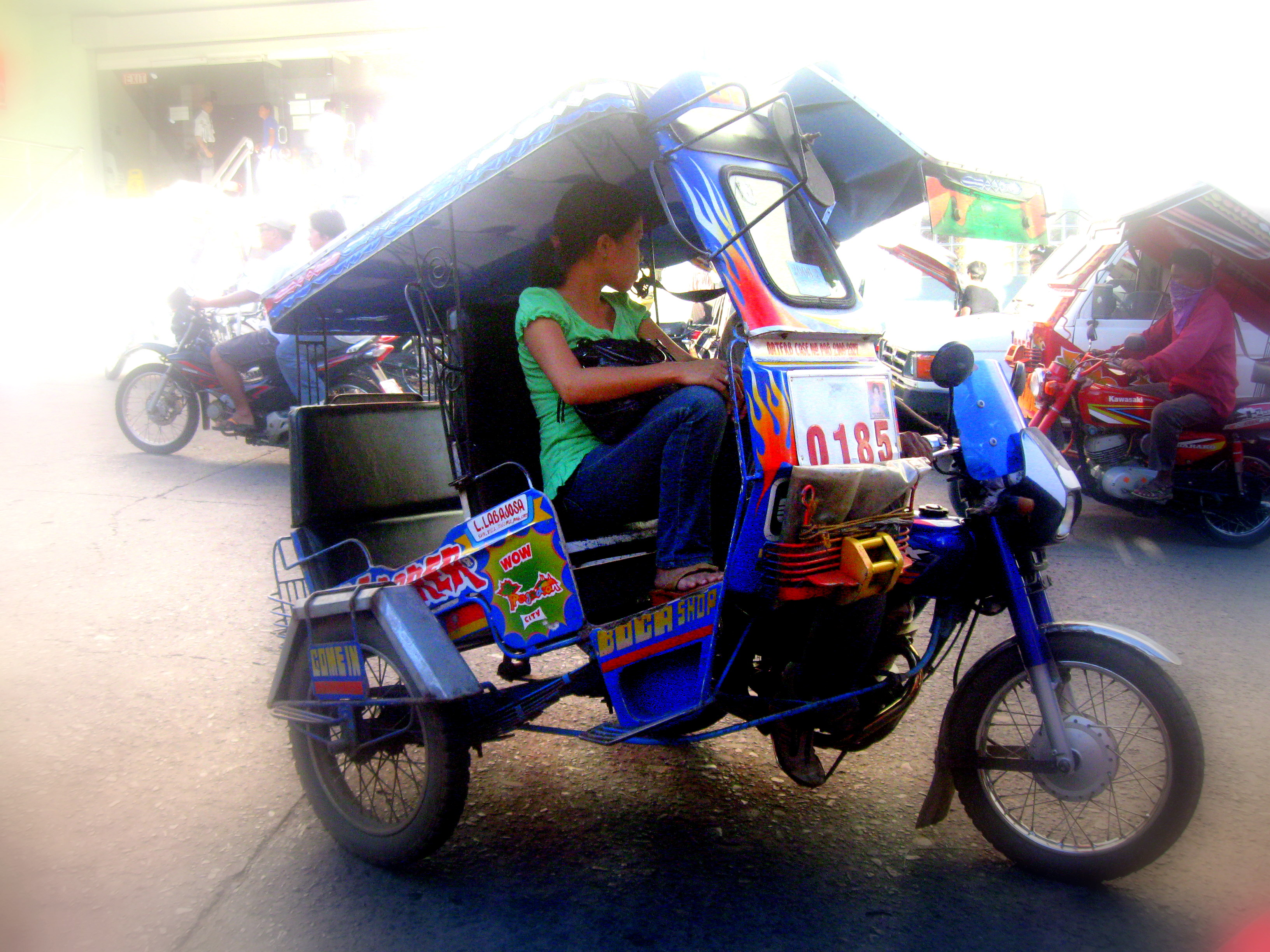 Pagadian's tricycle inclined at an angle.